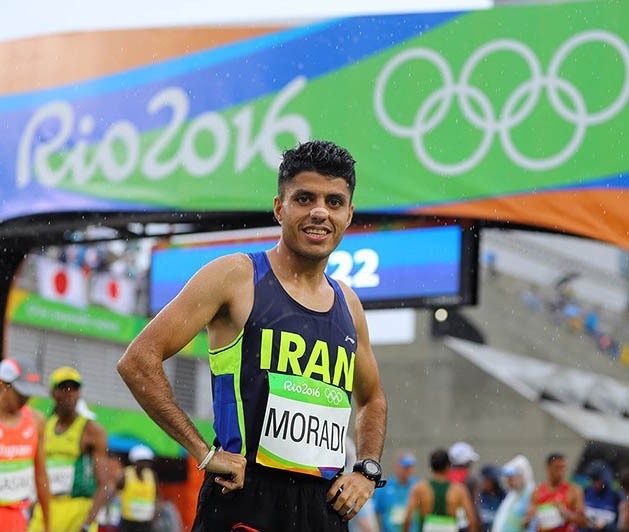 Athletics at the 2016 Summer Olympics – Men's marathon